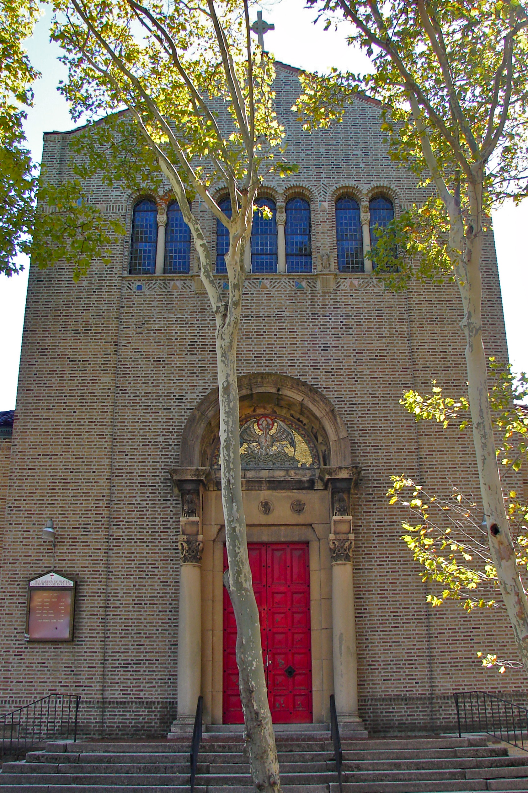 Most Precious Blood Roman Catholic Church, Rectory and Parochial School in Philadelphia on the NRHP since January 22, 1992. At 2800–2818 Diamond St. in the Strawberry Mansion neighborhood of North Philly.